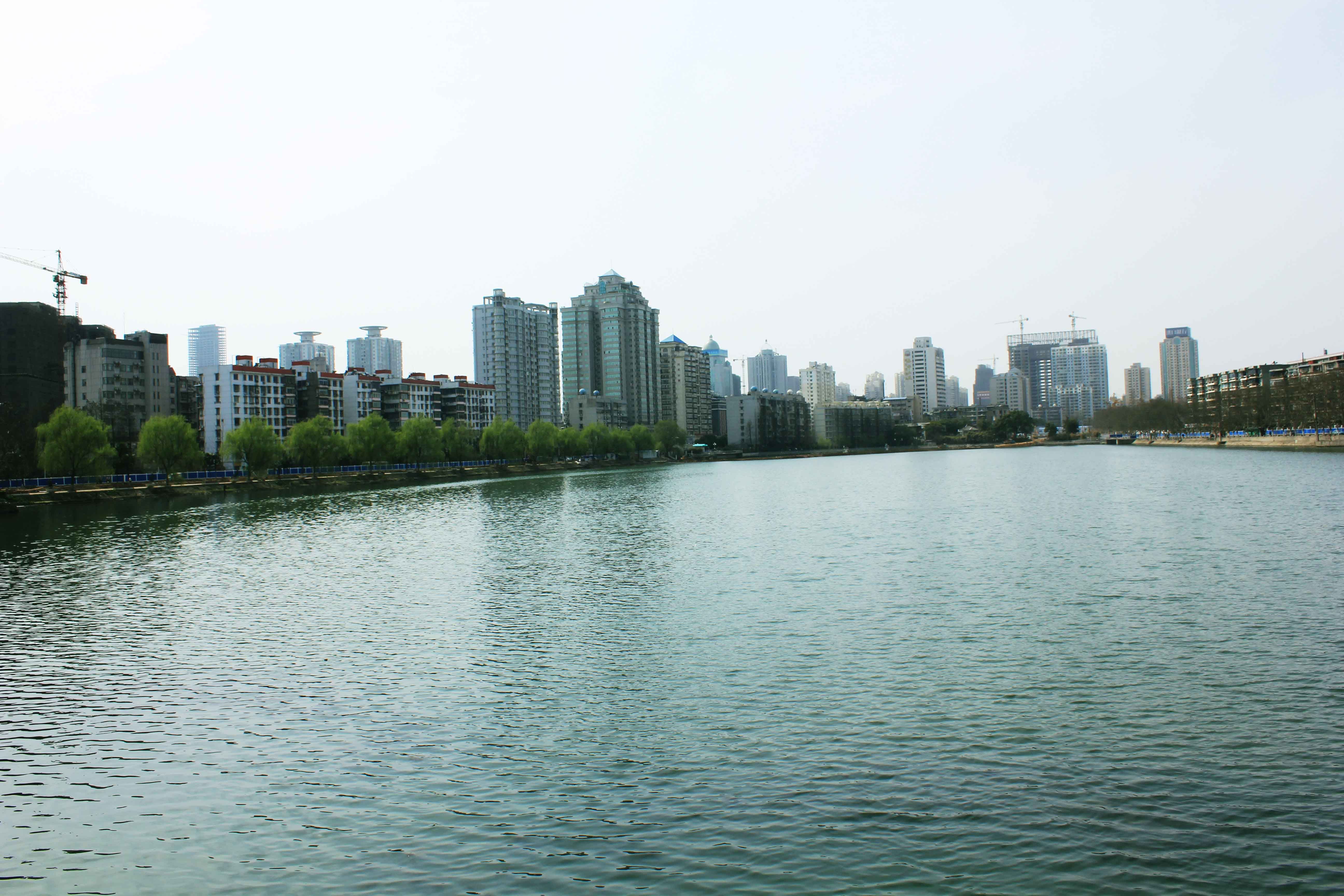 Shuiguo Lake in Wuhan